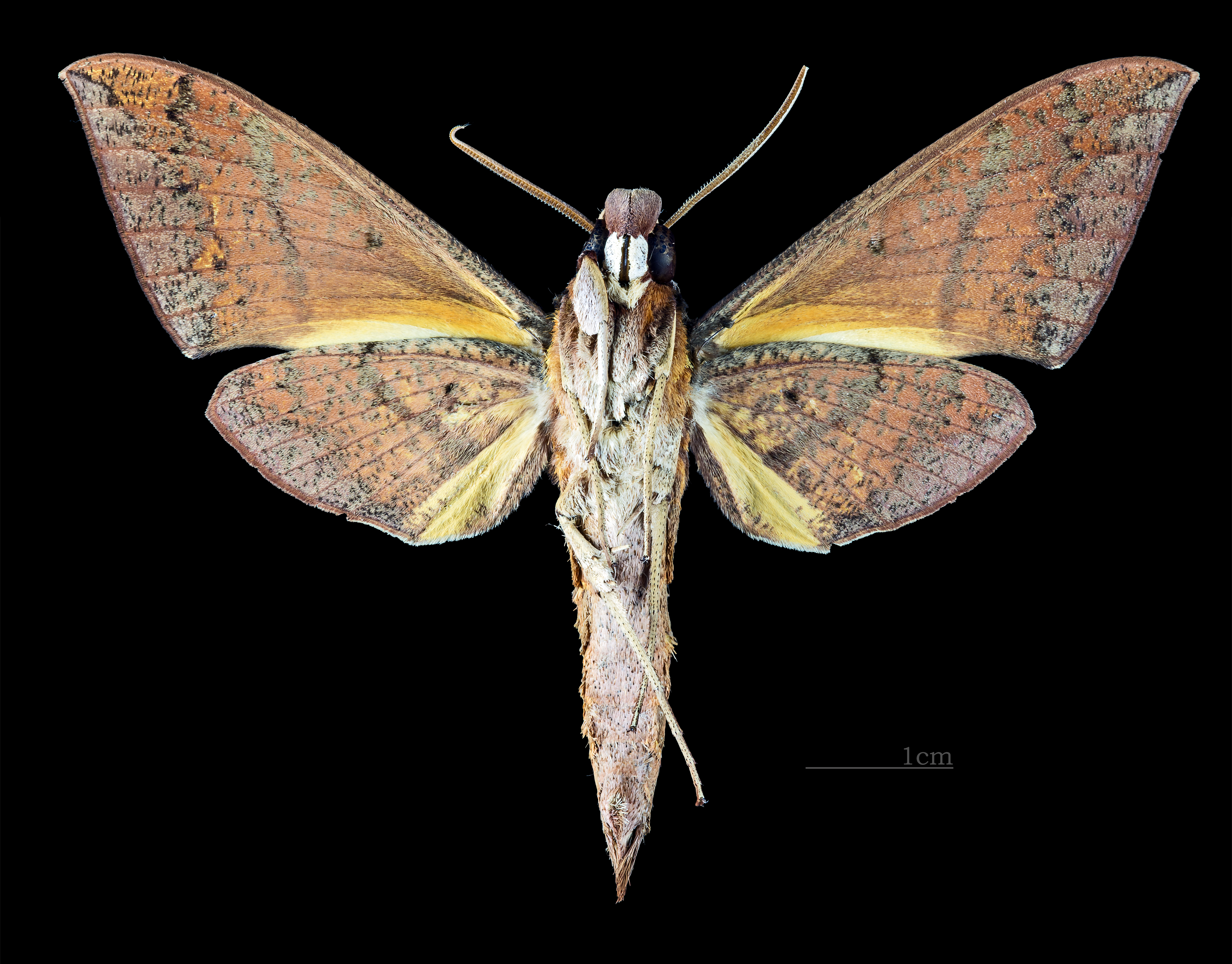 Gnathothlibus heliodes - △ Ventral side Collection of the Mathematician Laurent Schwartz